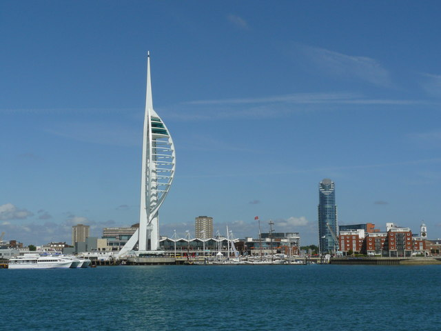 Spinnaker Tower, Portsmouth Photographed from the end of the jetty at the harbour edge of Haslar Marina. Worth the walk, in my opinion.